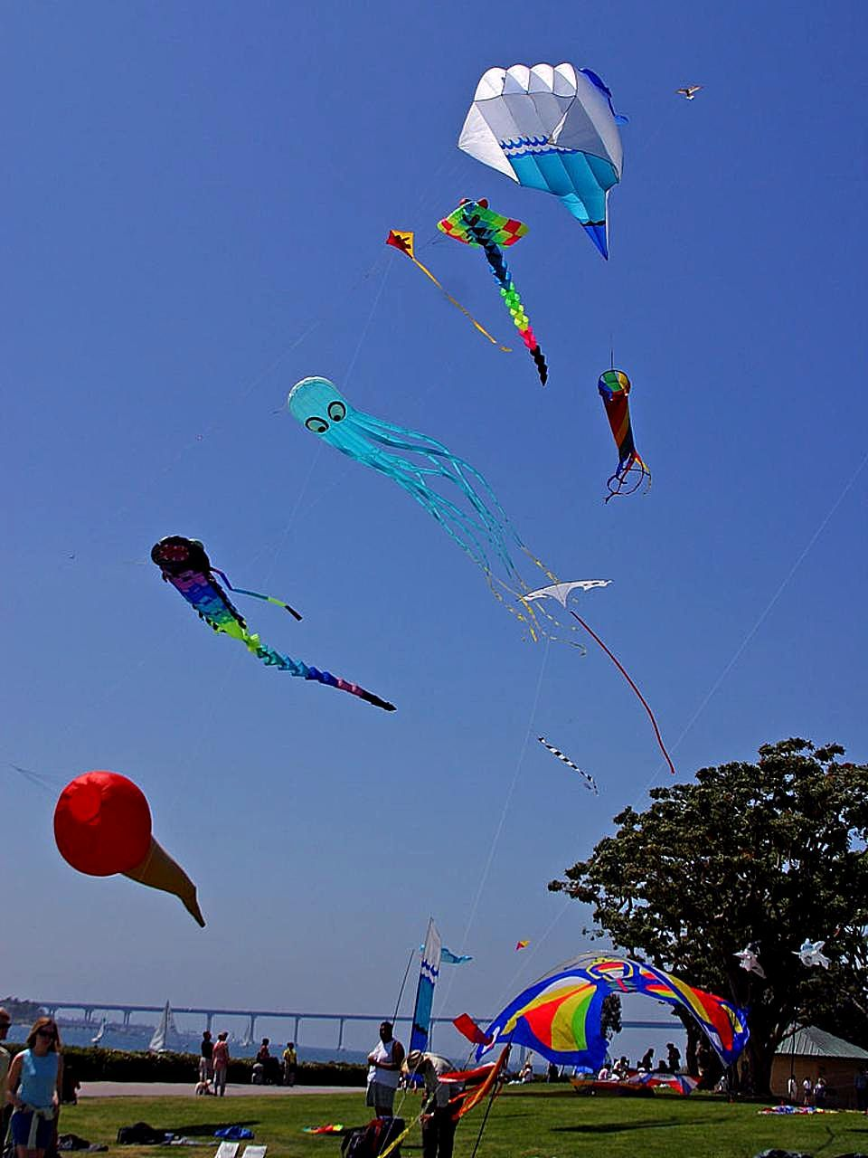 Image title: Kites flying on sky Image from Public domain images website